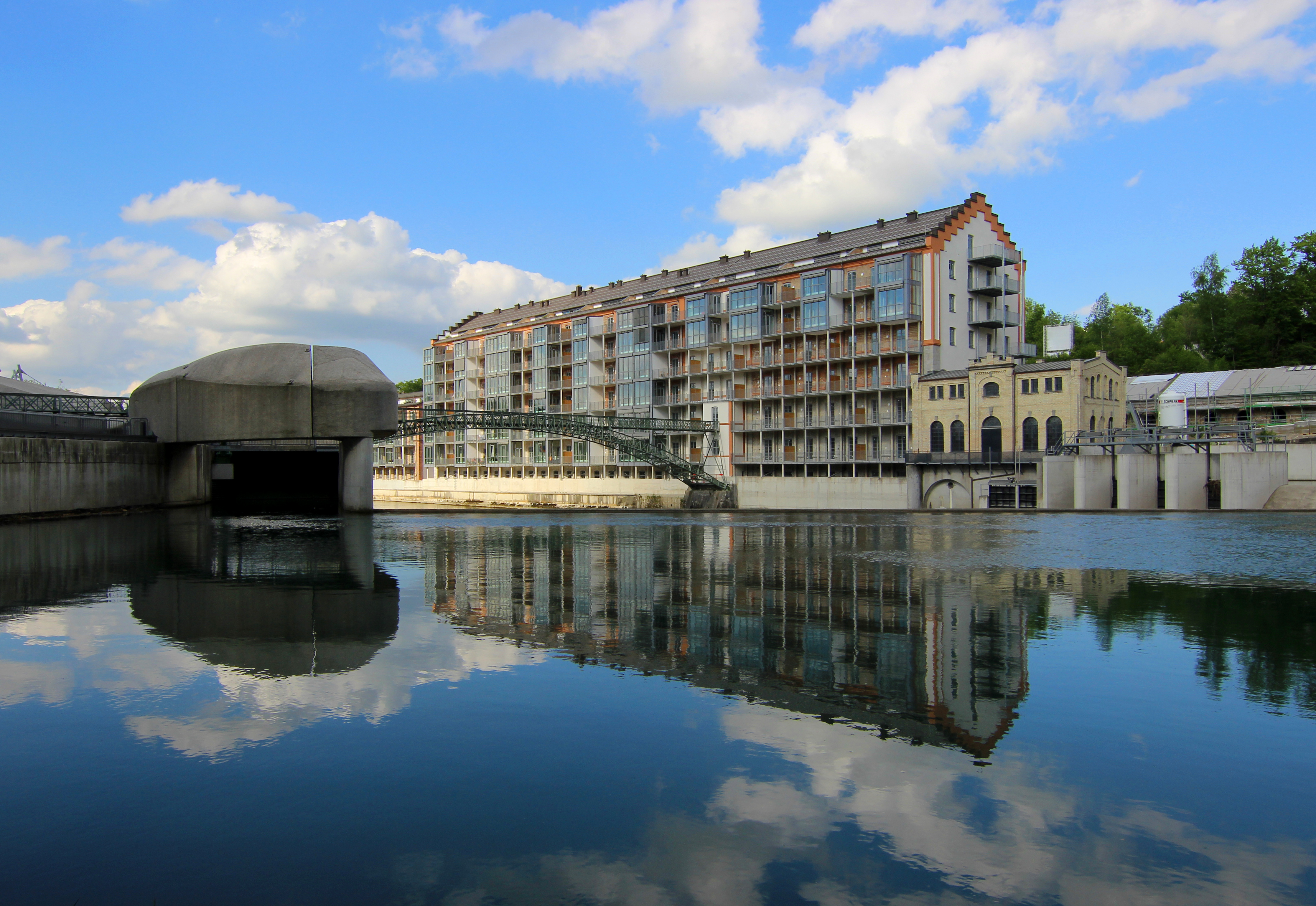 Mechanical cotton spinning mill in Kempten, Bavaria, Germany: Main building, seven-floored saddleback-building, made of bricks about a of stone made base from the year 1852. Expansion building, four-floored building of bricks with saddleback roof, 1889 made by J. Widmann and A. Telorac This is a photograph of an architectural monument.